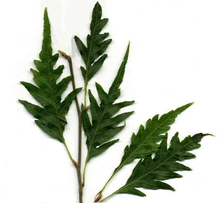 Species Fagus sylvatica Asplenifolia Family Fagaceae